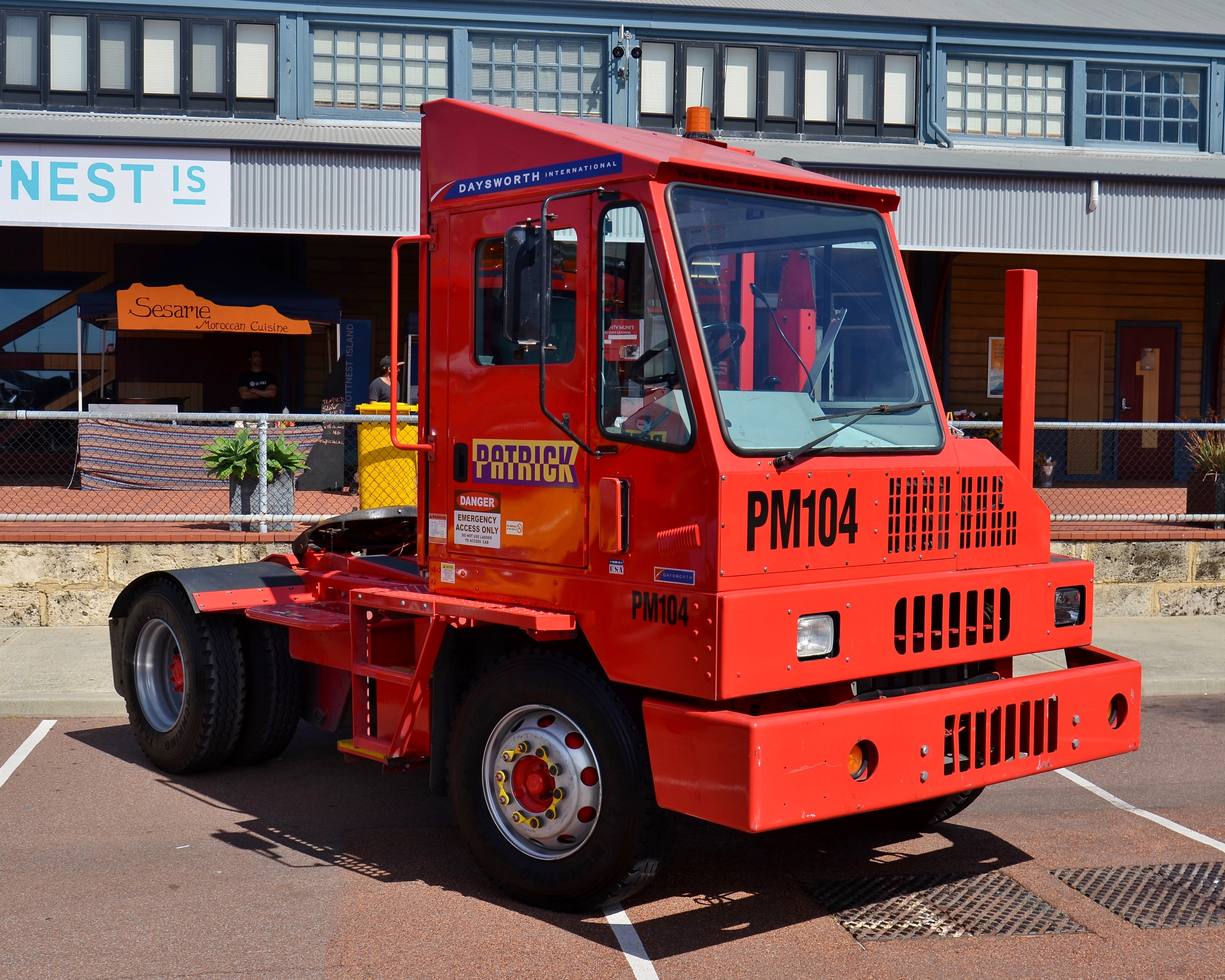 A Patrick terminal tractor, no. PM104, on display at the annual Fremantle Ports Maritime Day event at Victoria Quay, Fremantle Harbour, Australia. The terminal tractor is a right hand drive version of the Kalmar Ottawa 4x2 design, and bears the badging of Daysworth International, the Australian distributor of Kalmar terminal tractors.